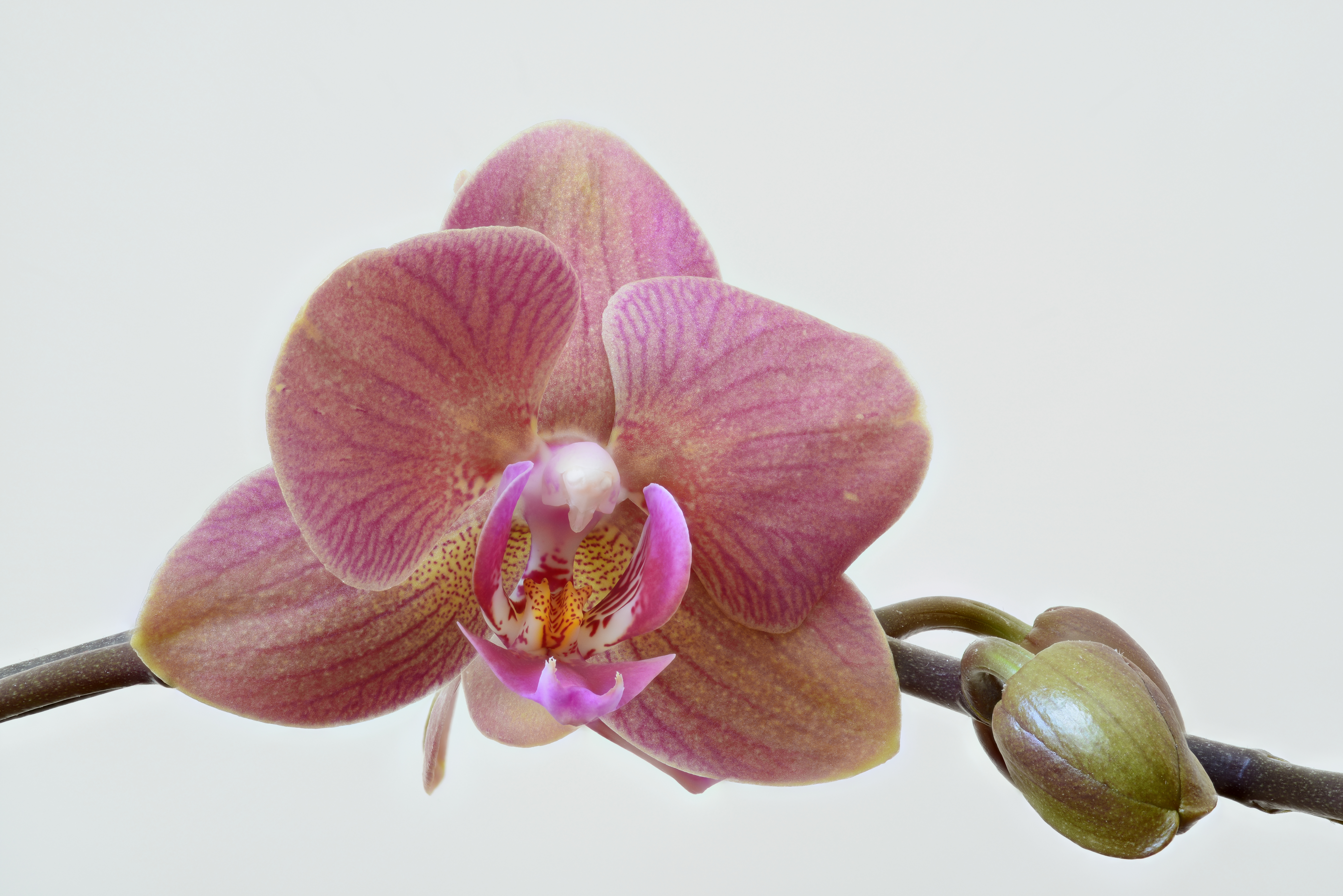 A high resolution image of an orchid